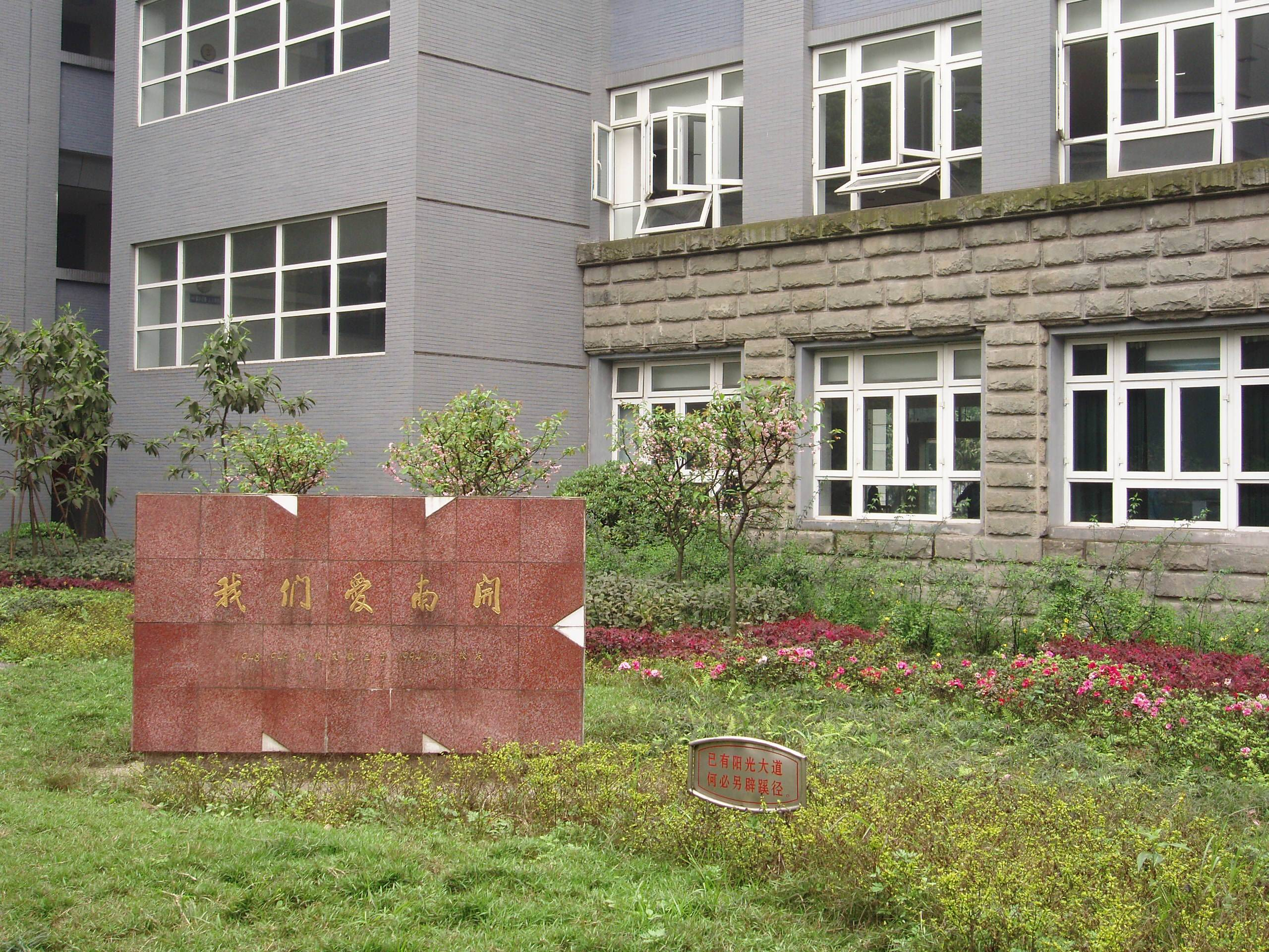 Chongqing Nankai Secondary School in Chongqing, China